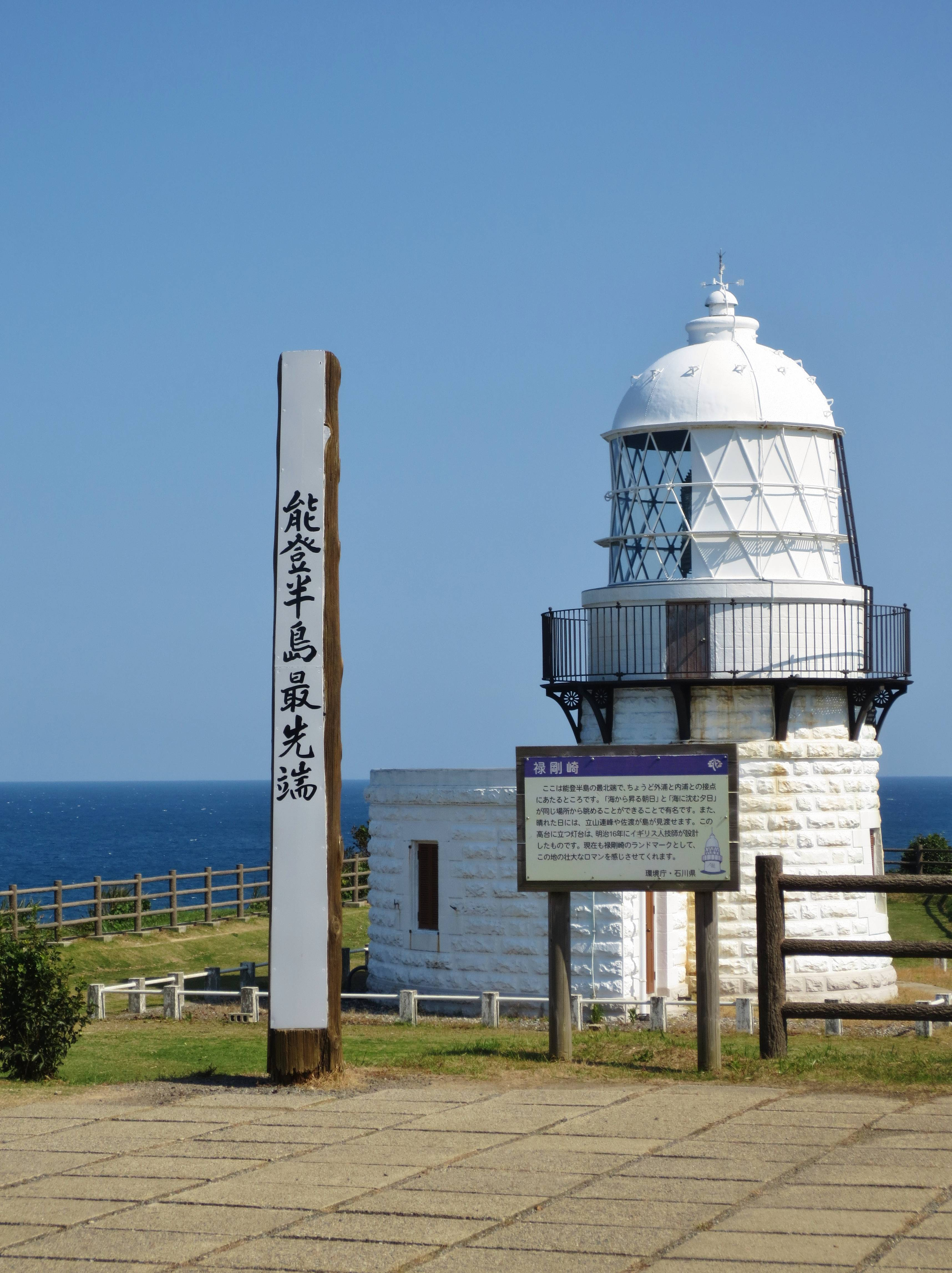 Rokkosaki Lighthouse.